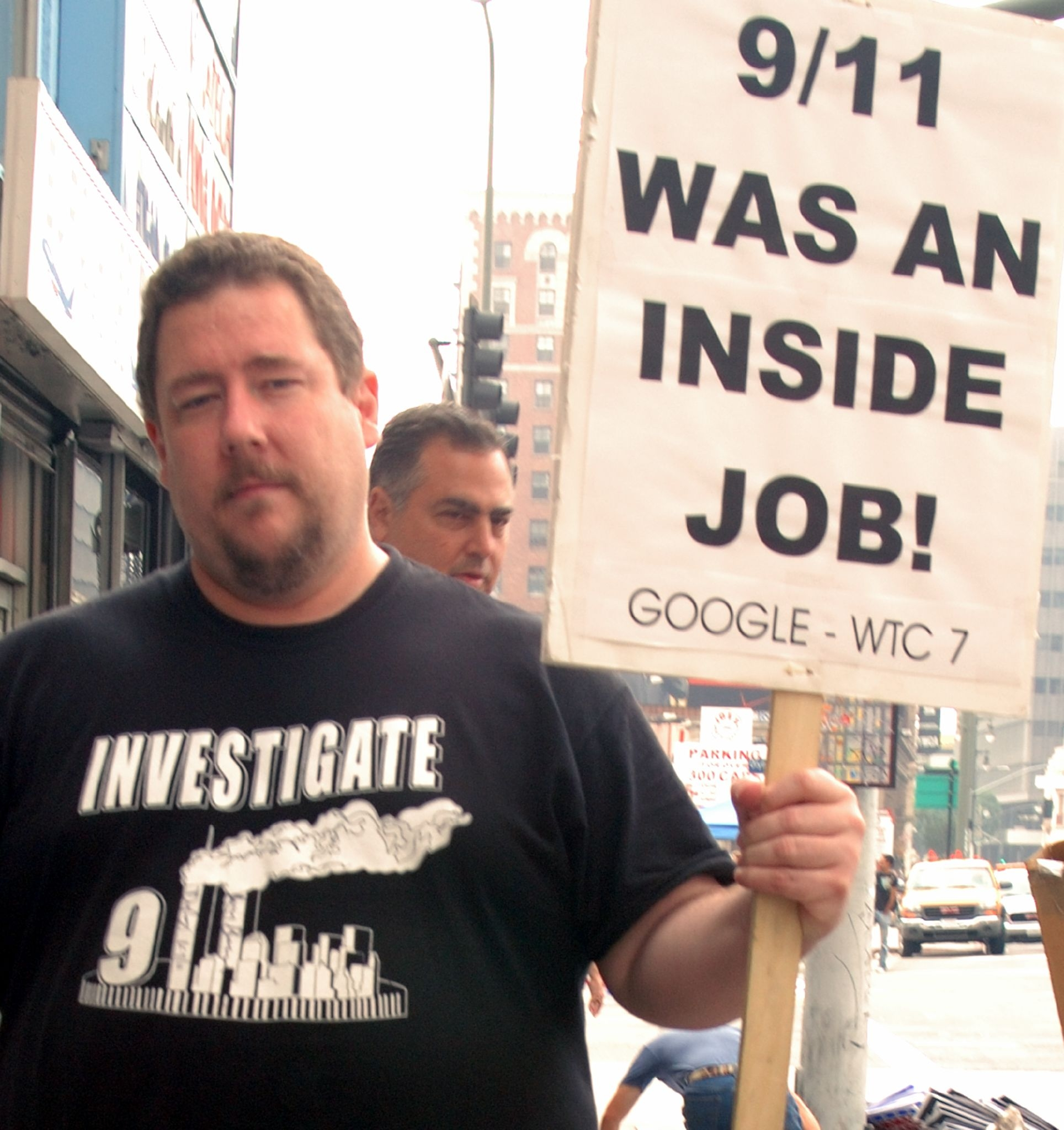 9/11 Truth Movement demonstrator, Los Angeles.